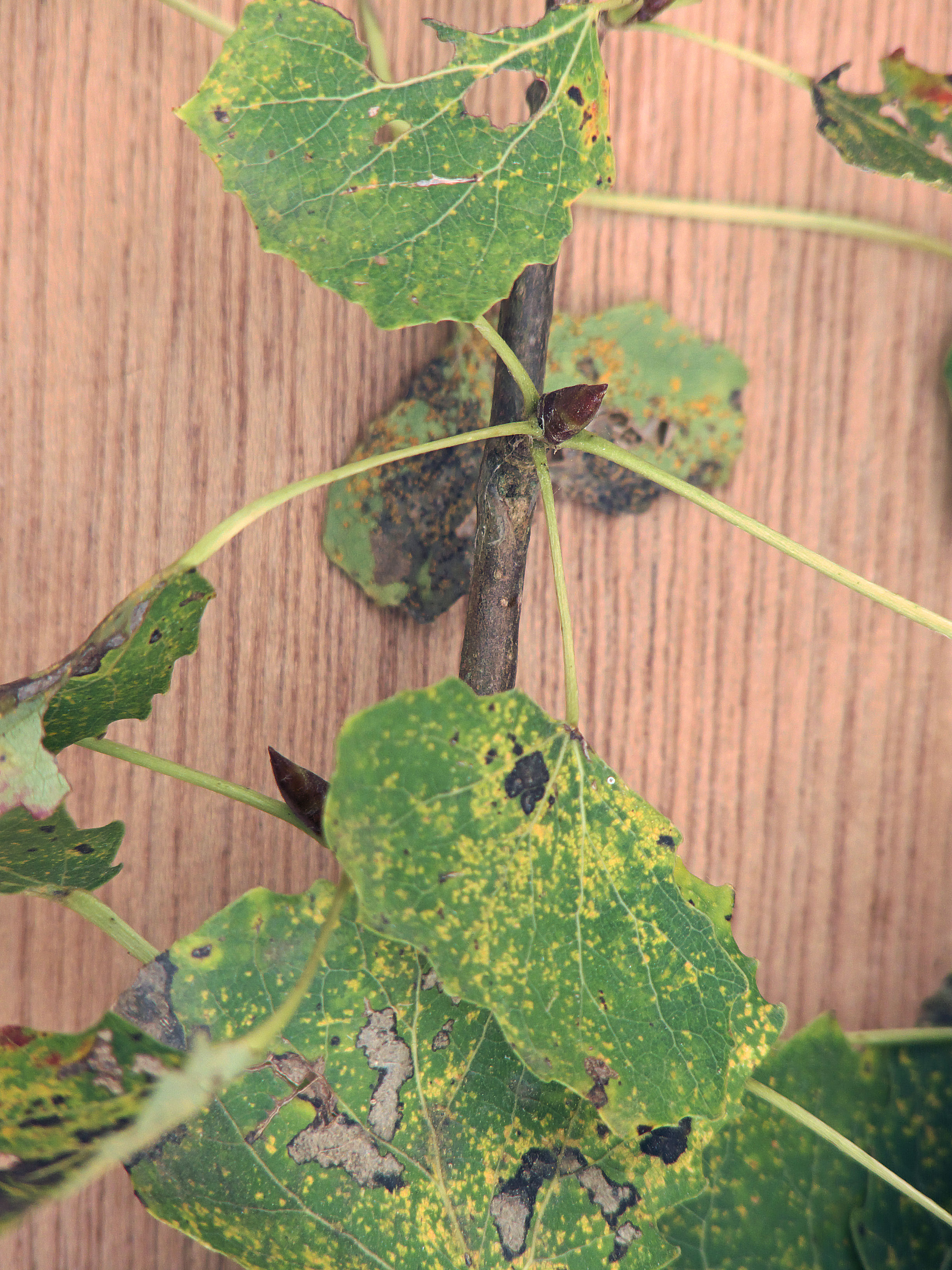 Populus tremula bud